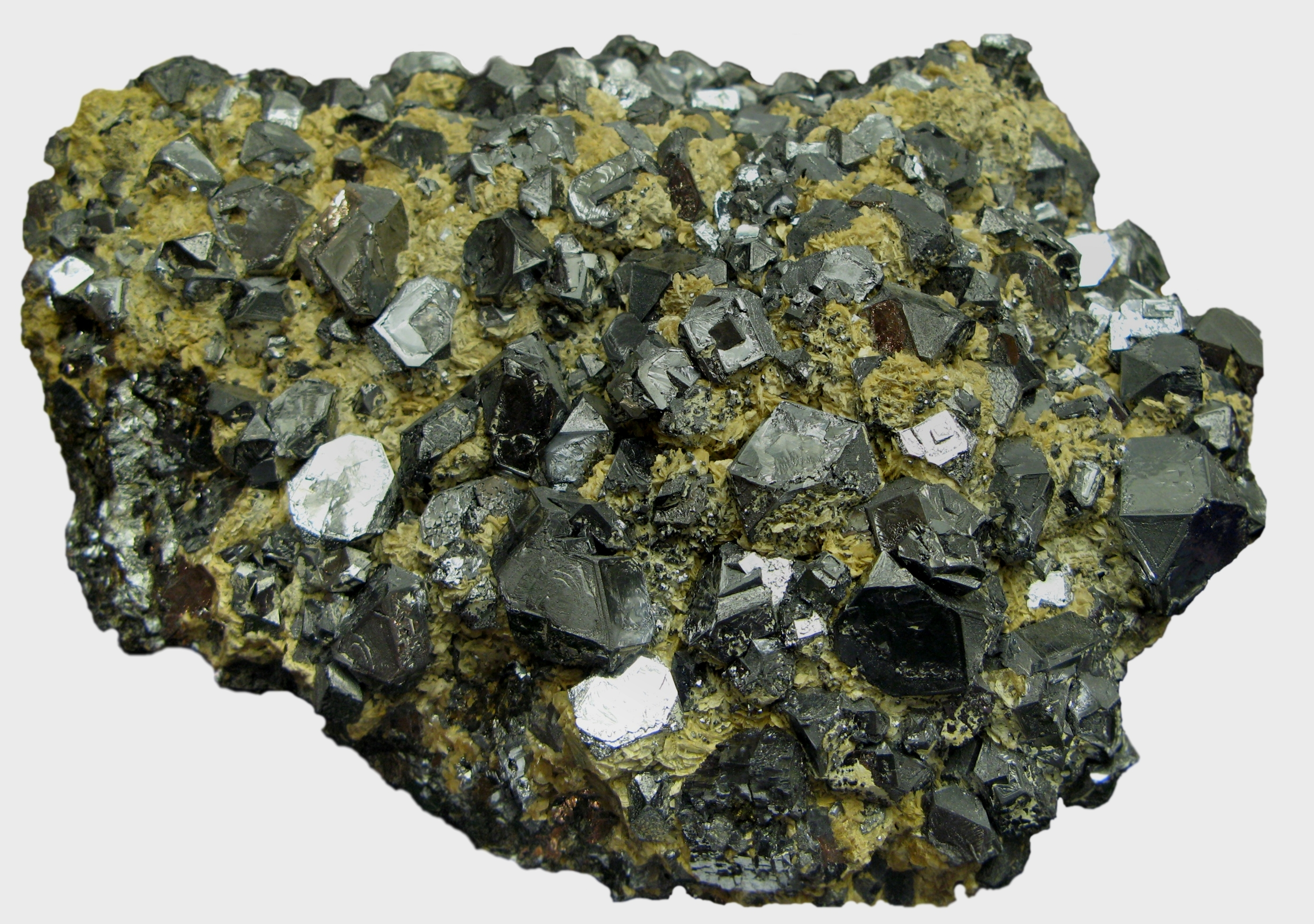 Galenite from the Mies mine, Slovenia